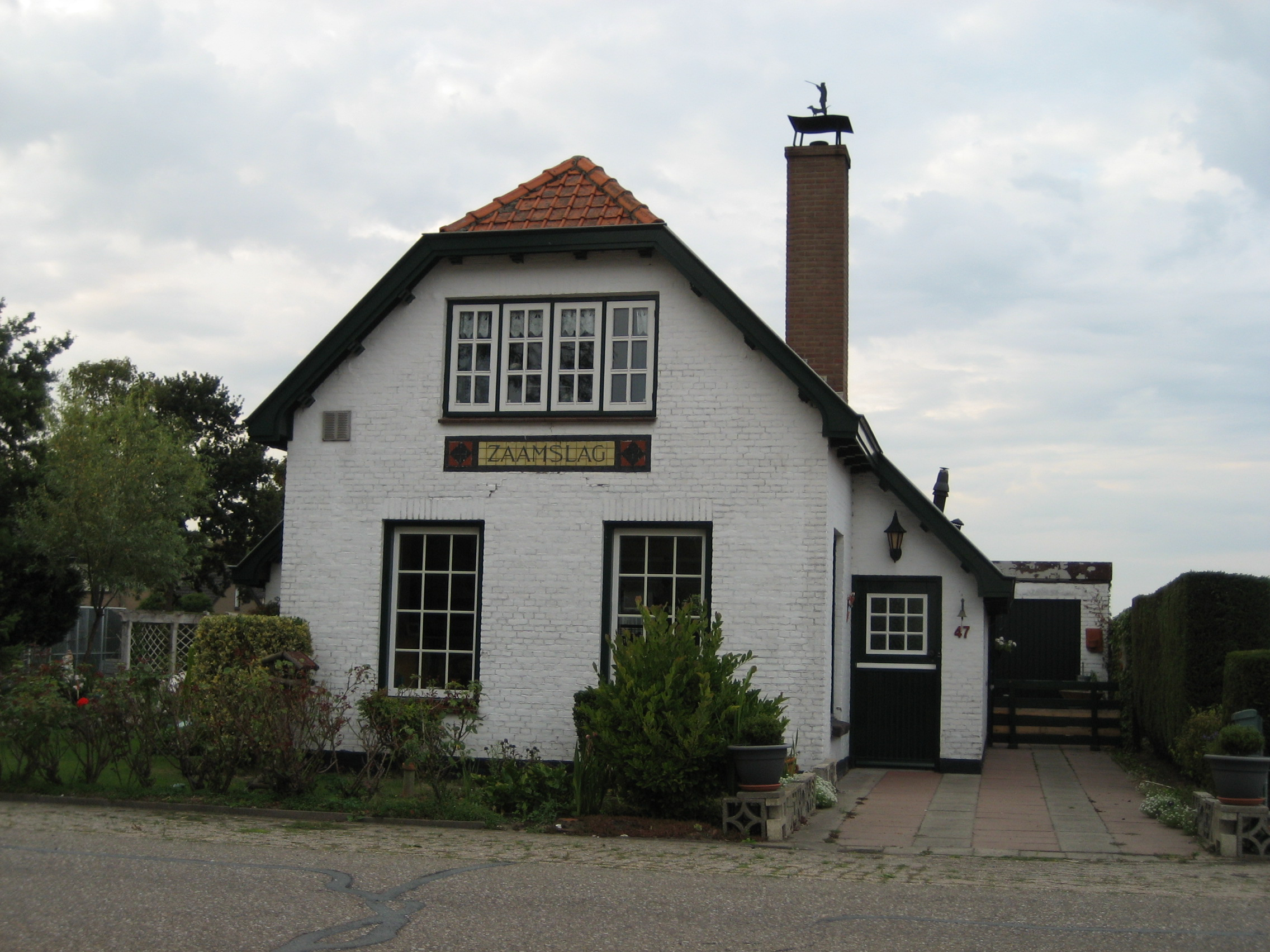 Tramhalte ZVTM Zaamslag